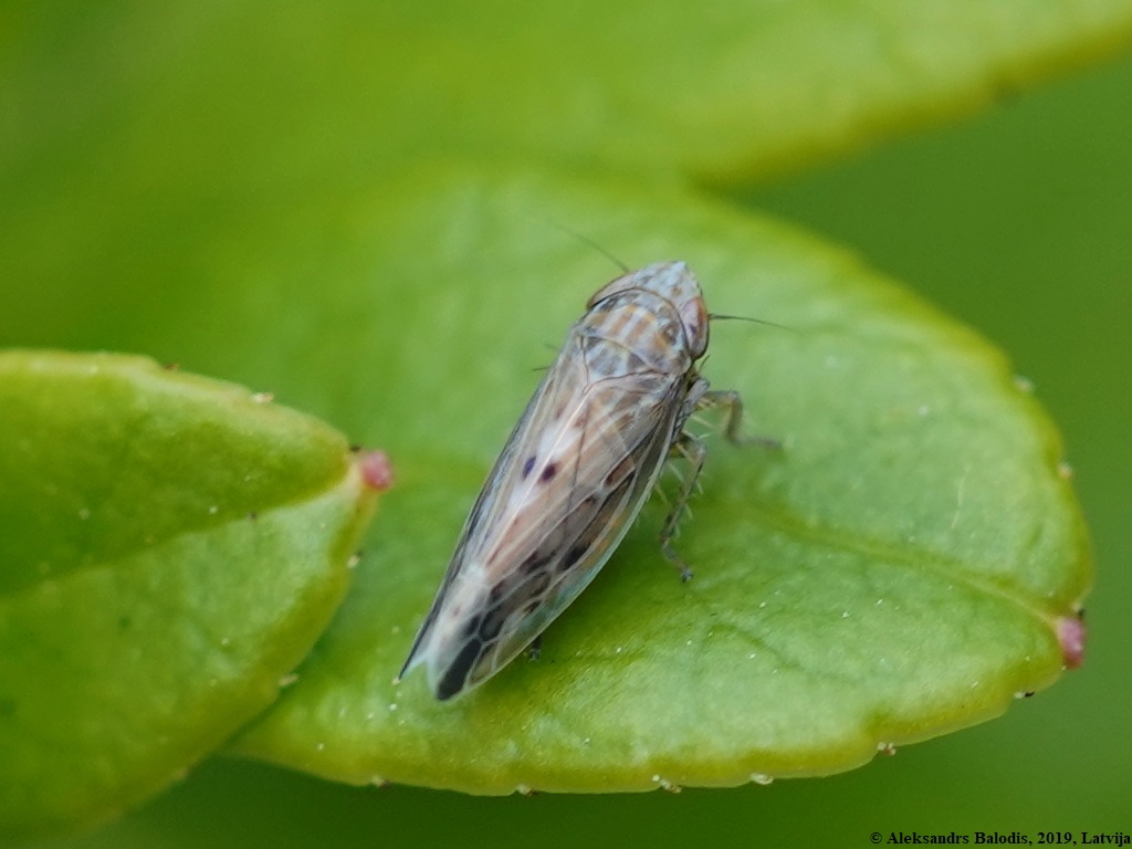 Mocydiopsis attenuata